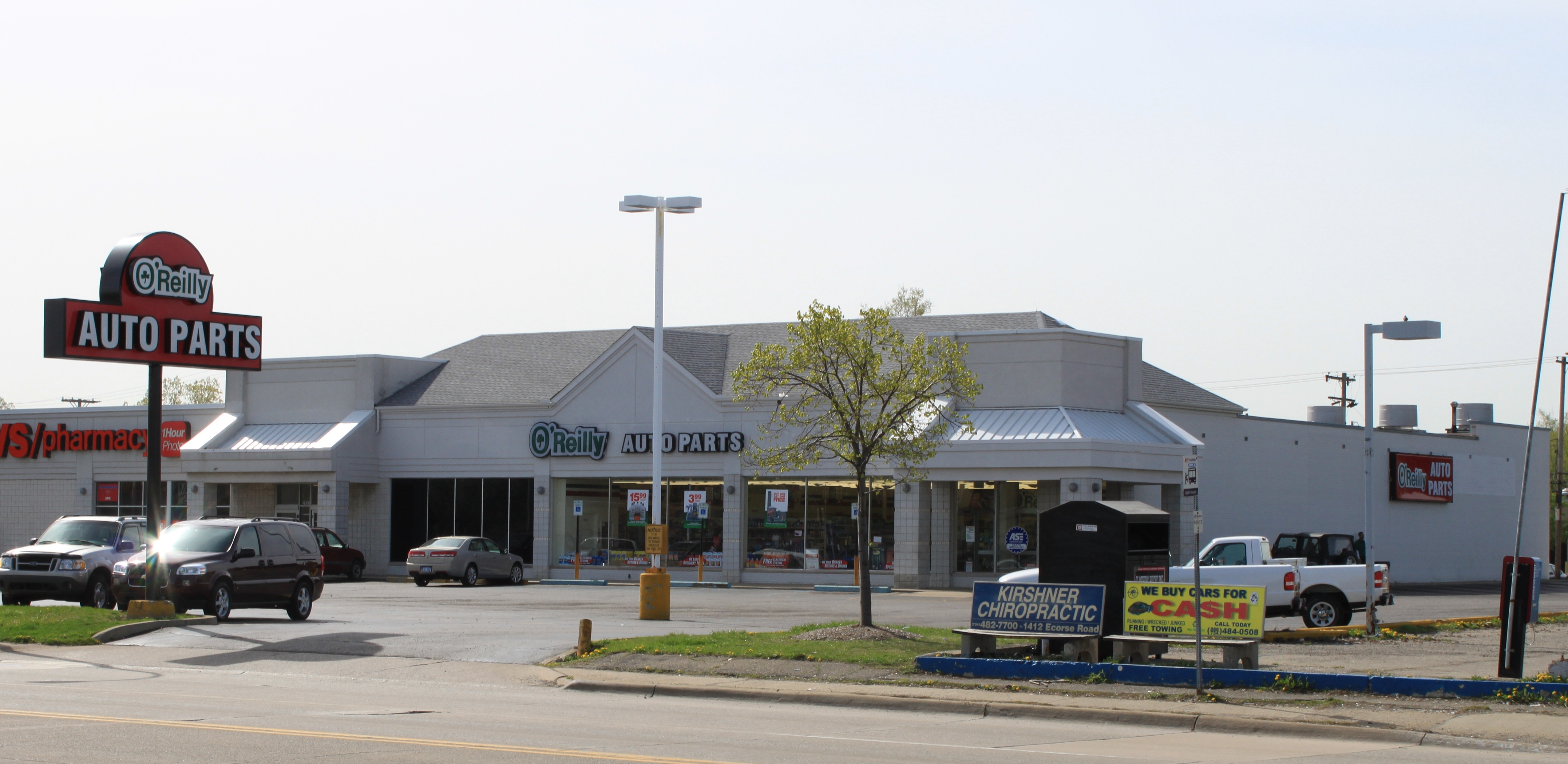 O'Reilly Auto Parts 2165 Washtenaw, Ypsilanti, Michigan 48197